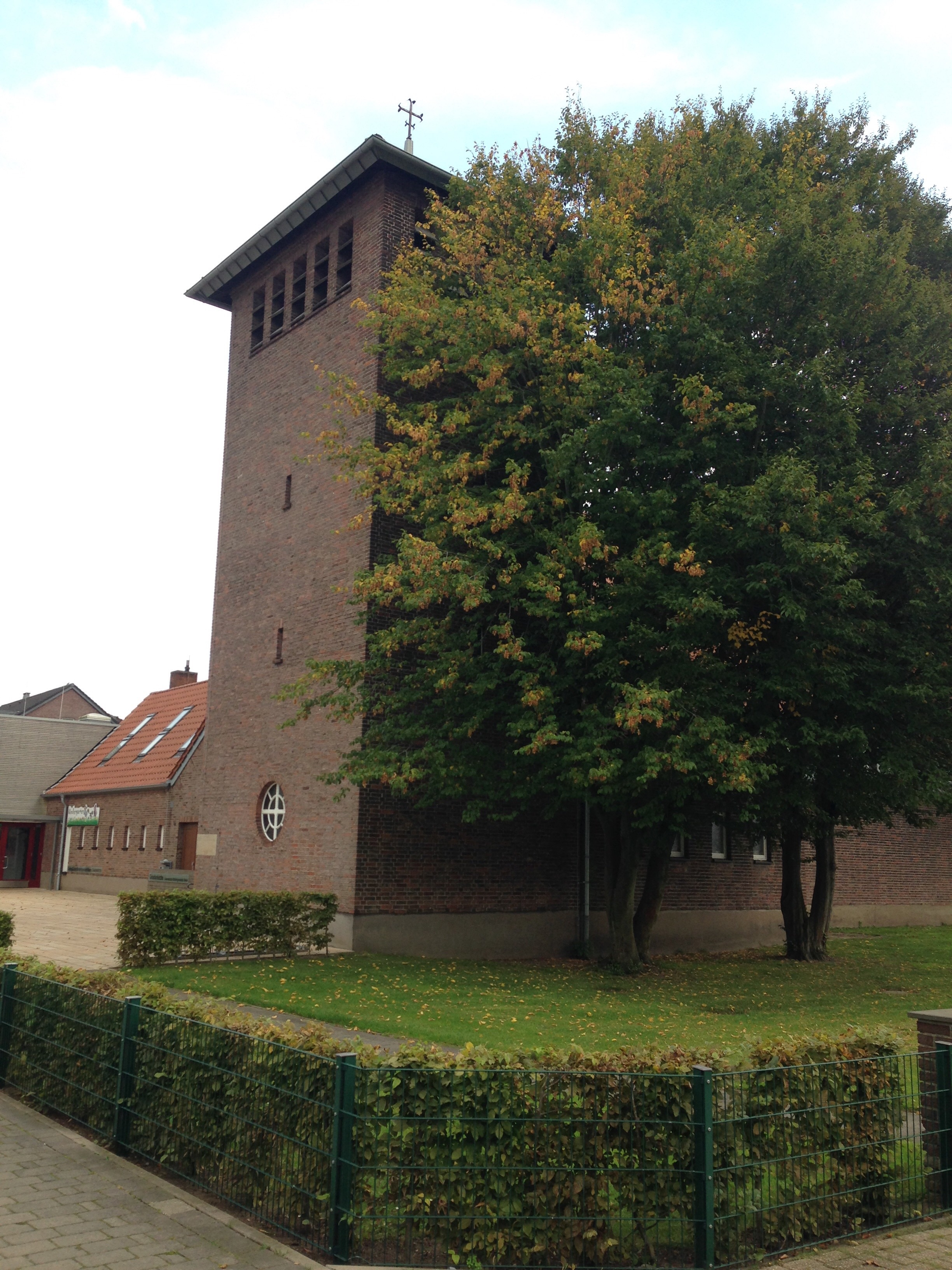 Gnadenkirche in Wesel, North-Rhine-Westfalia